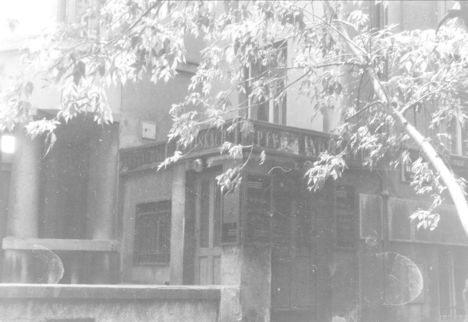 Pub U Tyšerů, legendary cultural centre